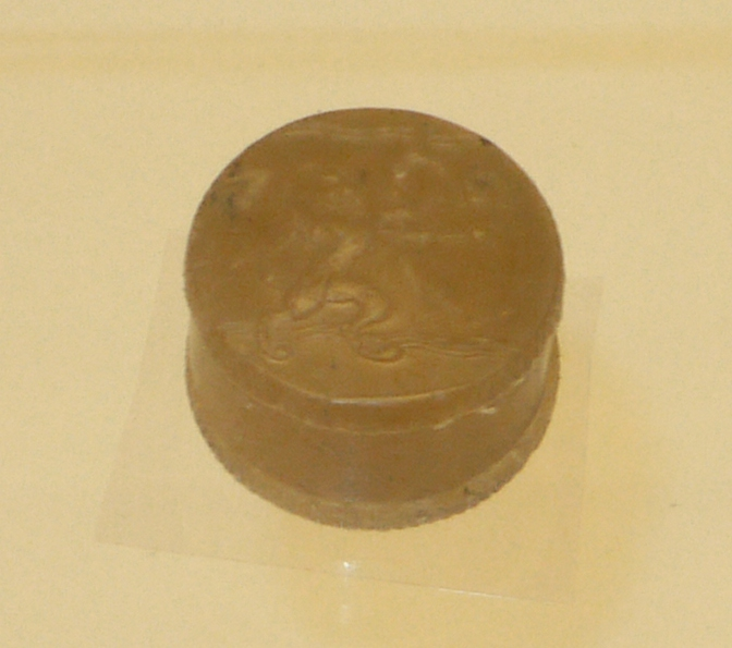 Pillbox made from the first pound of polythene and then presented to Frank Bebbington in 1936